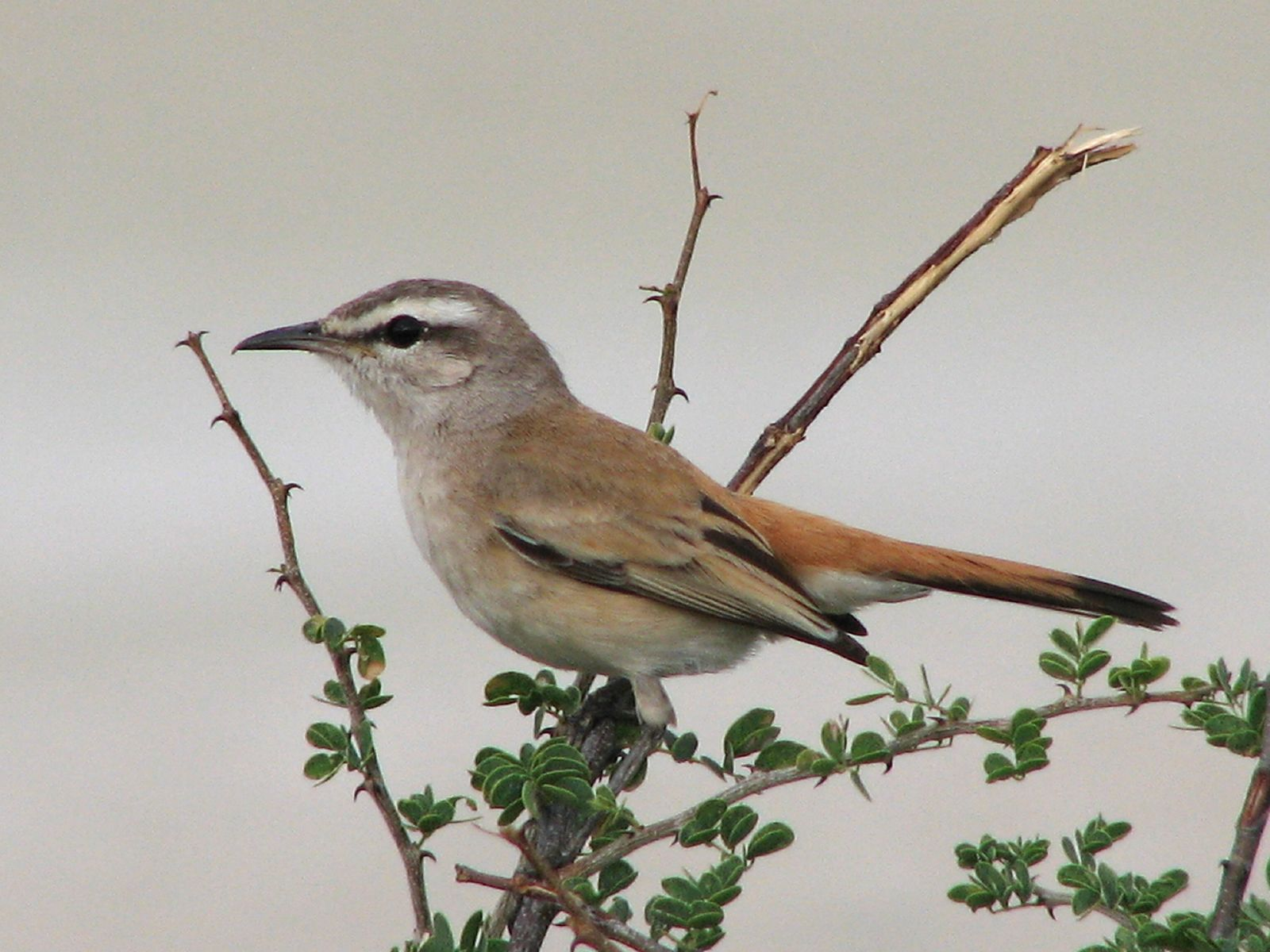 Kalahari Bush Robin in Etosha, Namibia.